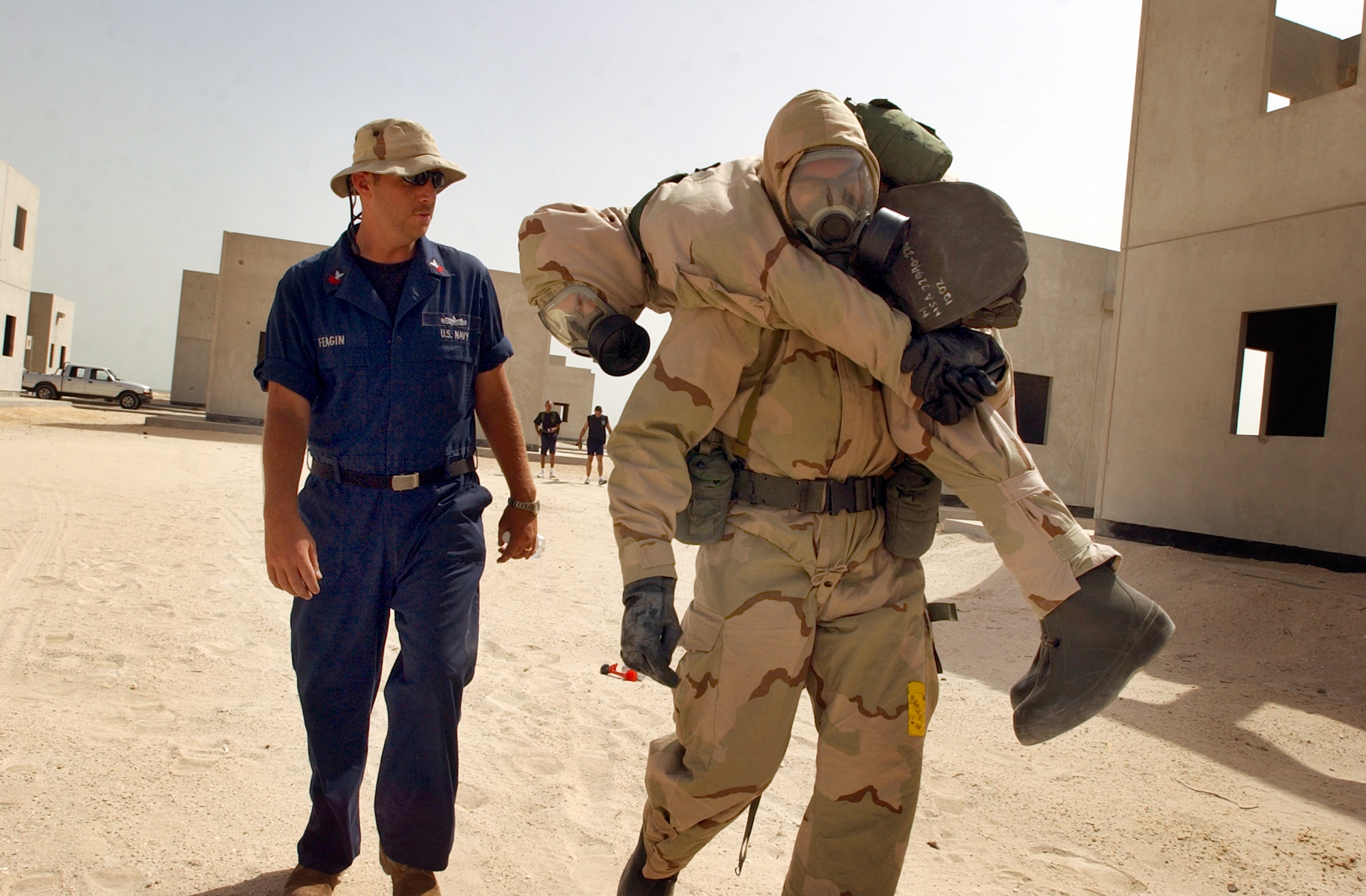 Naval Support Activity (NSA) Bahrain, (May 20, 2003) -- Boatswain’s Mate 1st Class Kenneth Feagin instructs members of Naval Support Activity (NSA) Bahrain's Emergency Response Team on one of various ways to evacuate wounded personnel using the improvised carry. The NSA Bahrain Emergency Response Team recently met at a remote training facility to practice their skills on Chemical, Biological, Radiological defense, response and recovery procedures. U.S. Navy photo by Photographer’s Mate 1st Class Aaron Ansarov. (RELEASED)